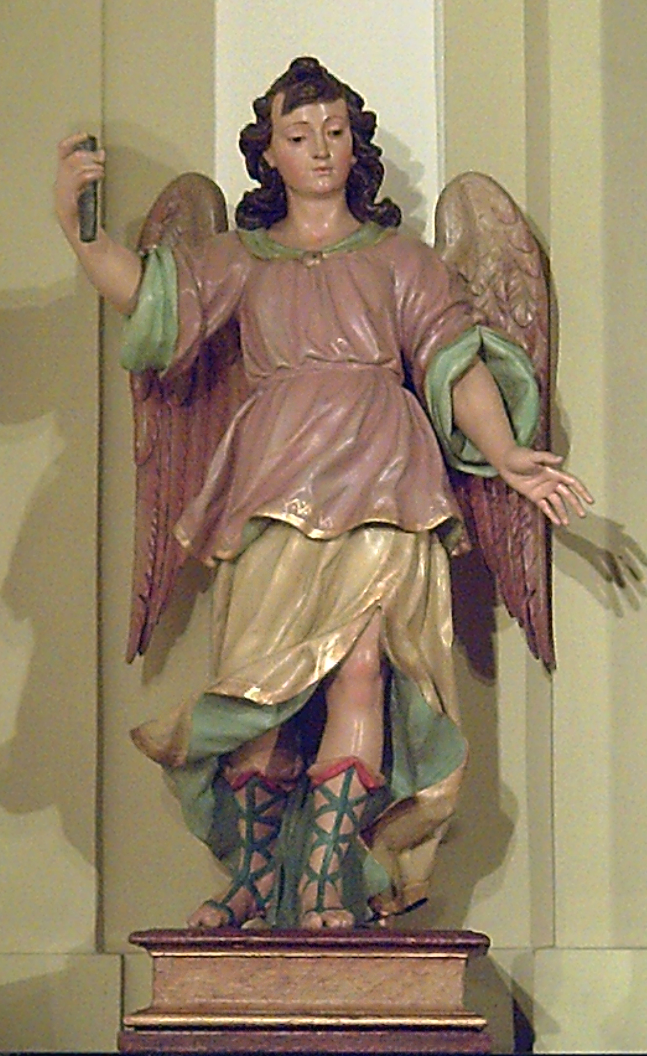 A cherub.